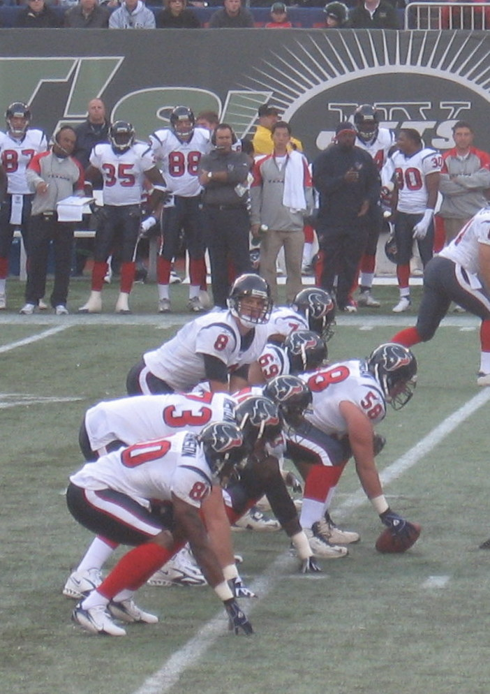 Taken by User:Anskykids on November 26, 2006 at Giants Stadium - New York Jets vs. Houston Texans.